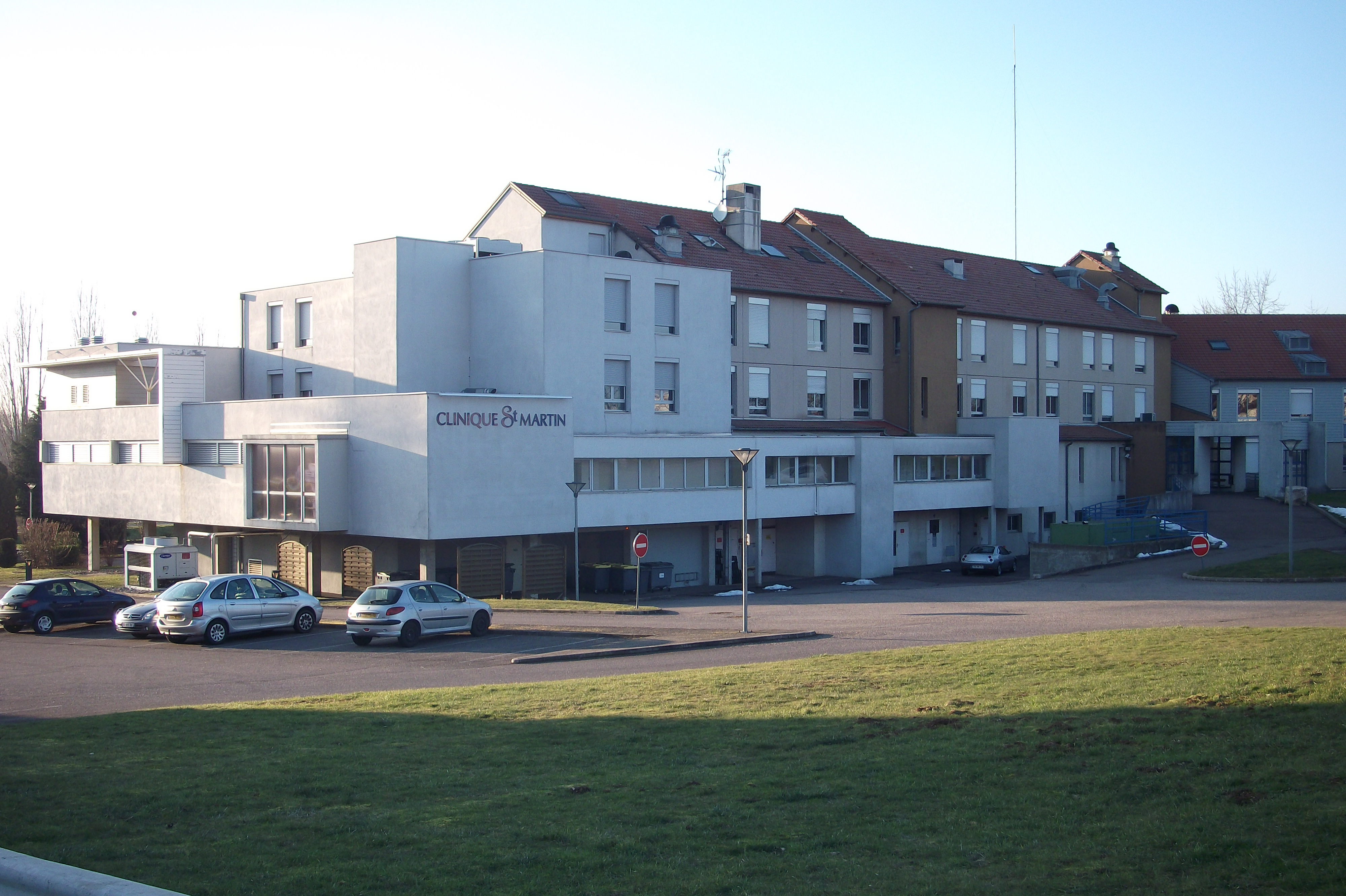 La clinique Saint-Martin de Vesoul